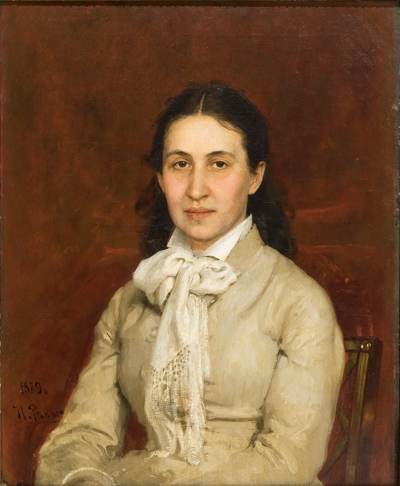 Portrait of Jelisaveta Mamontova